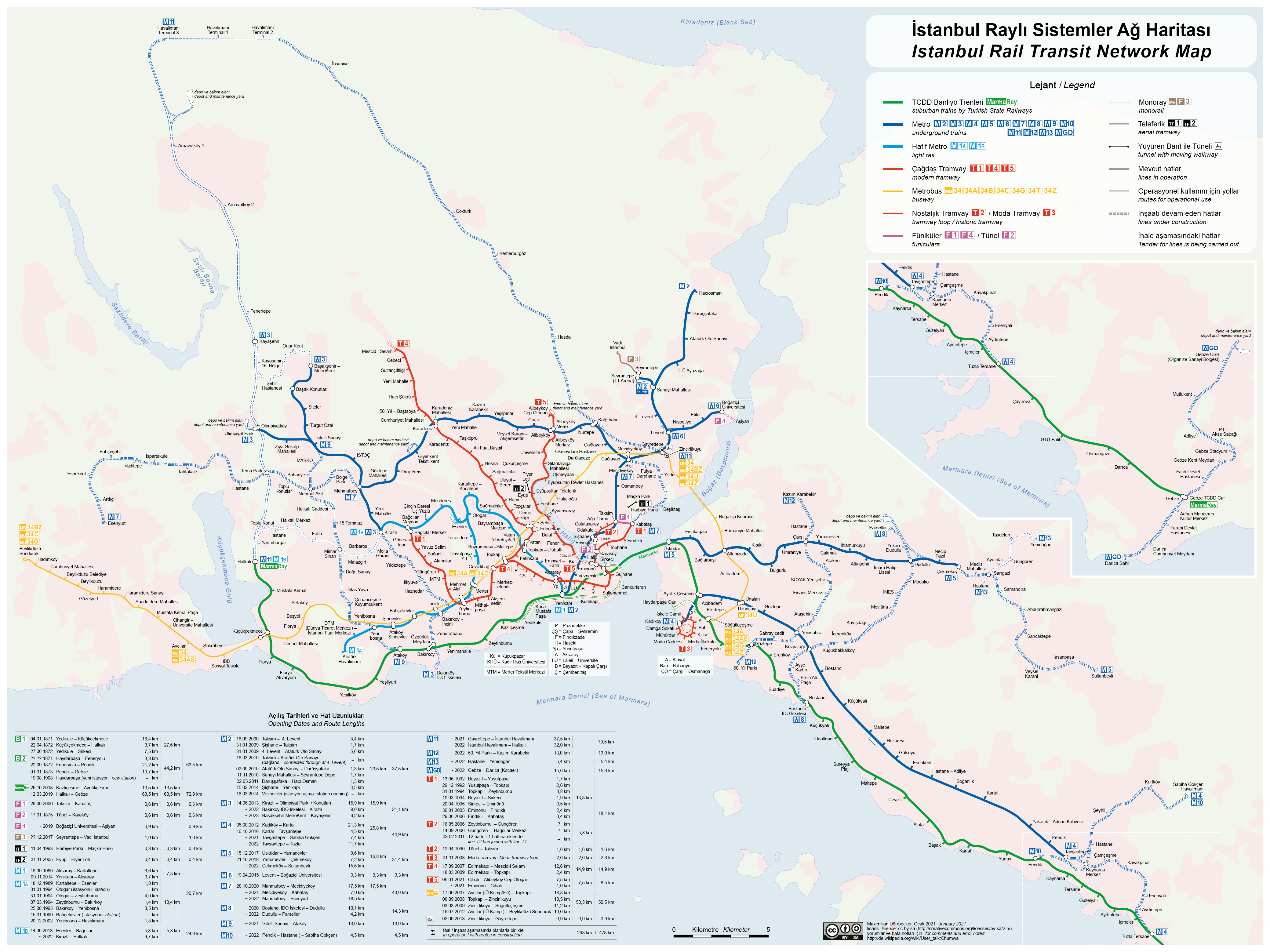 Istanbul Rapid Transit Map (subway, tramway, suburban trains, Busway, funiculars and aerial tramways)